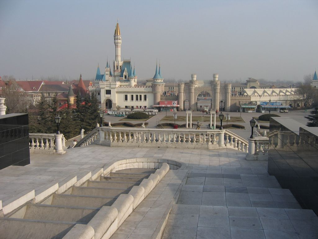 World park.